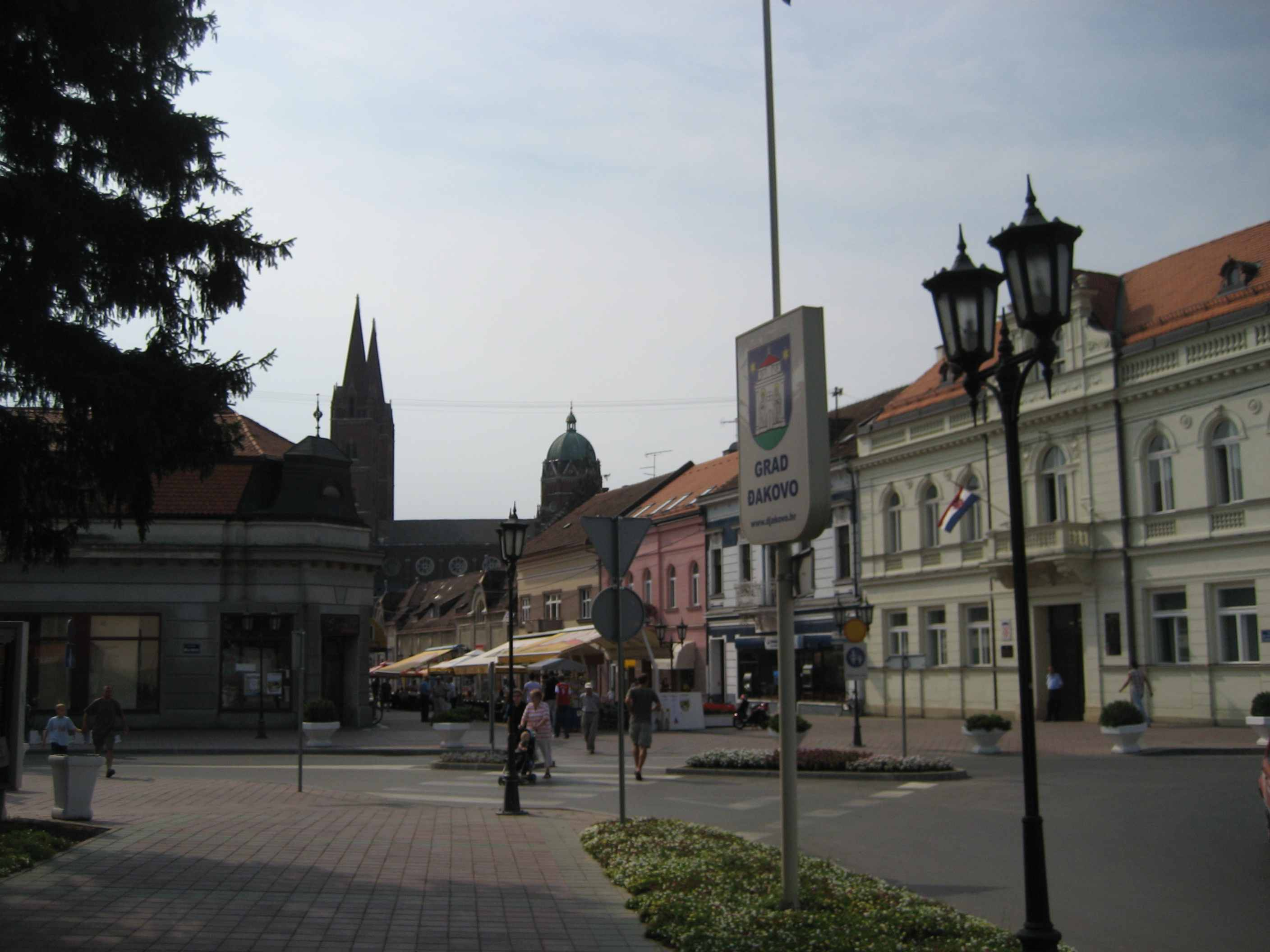 Dakovo-1, Croatia